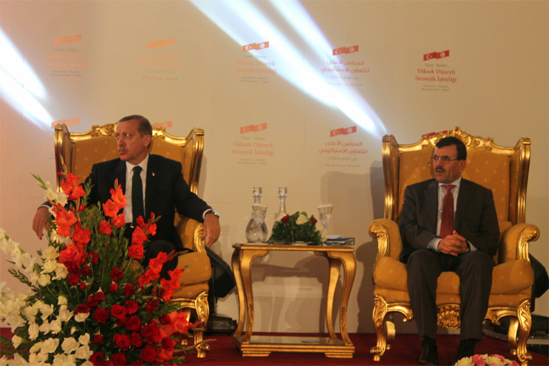 Turkish Prime Minister Recep Tayyip Erdogan (L) attends a ceremony with Tunisian Prime Minister Ali Larayedh in Tunis on June 6th, 2013.